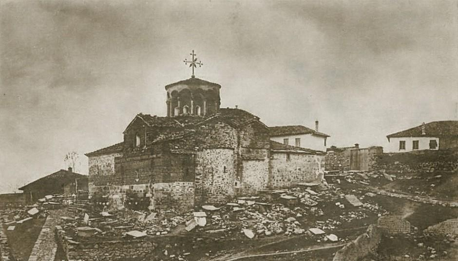 St. Demetrious Church in Varoš, Macedonia. Taken in 1917.